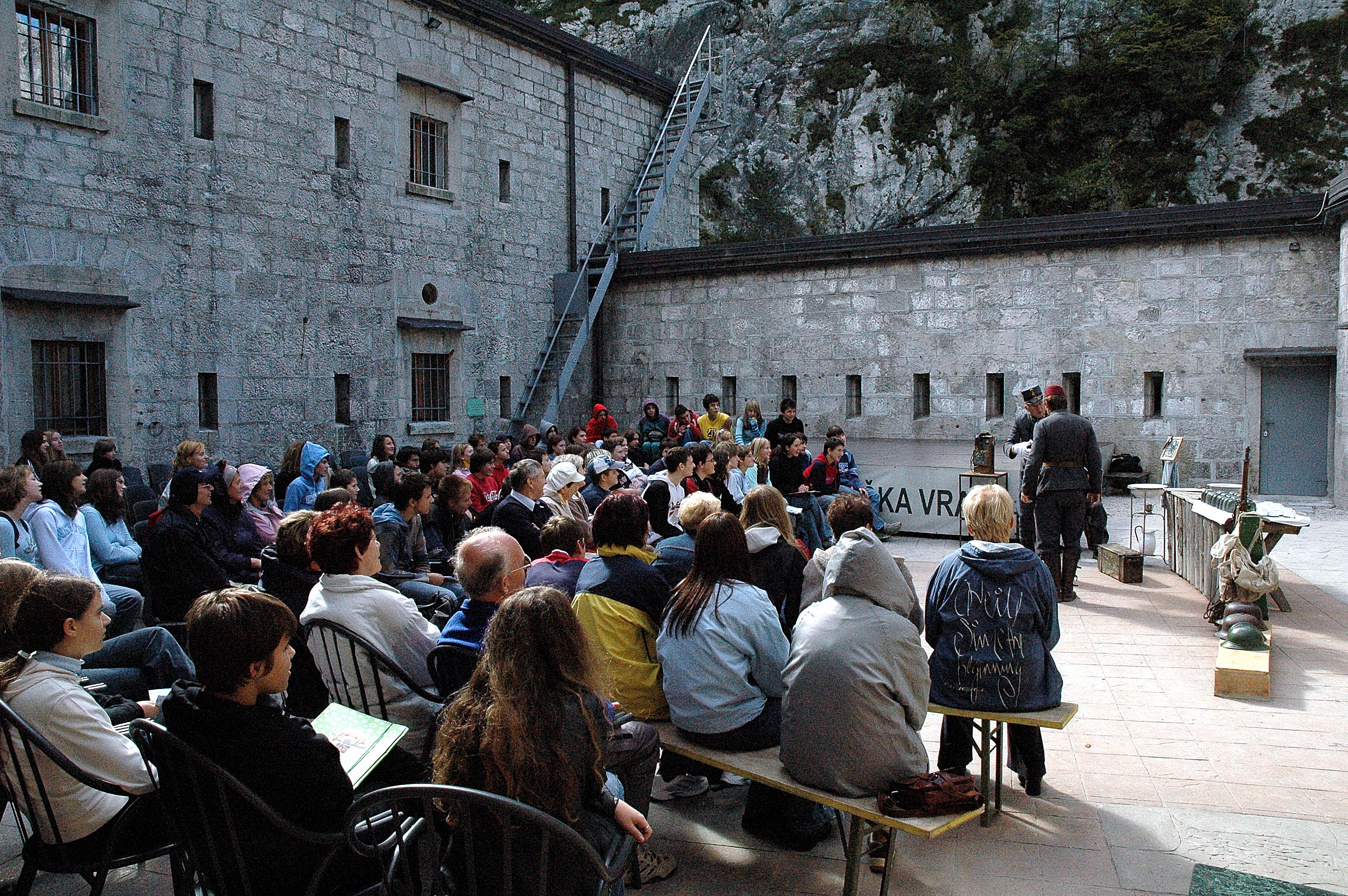 Theatre performance at Fort Kluže, Bovec, Slovenia, EU